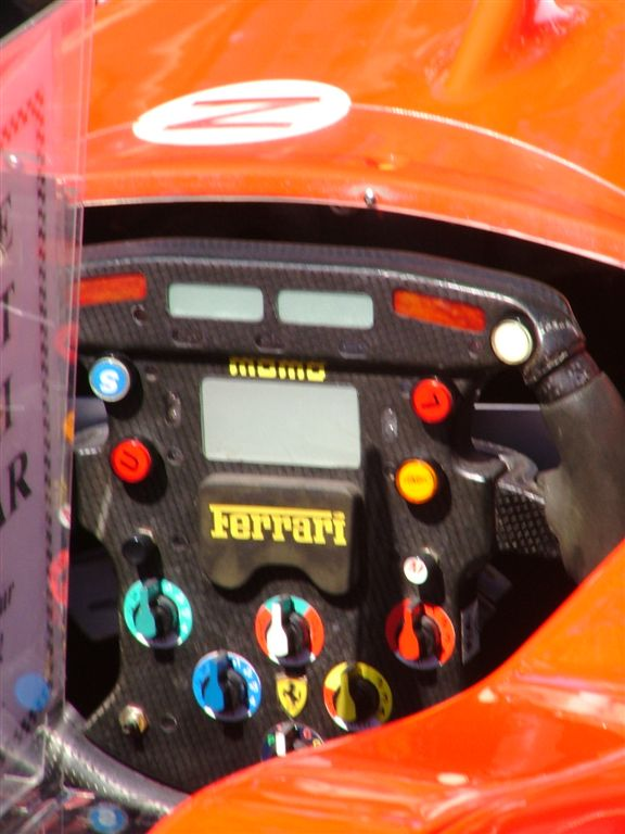 Formula 1 Ferrari steering wheel